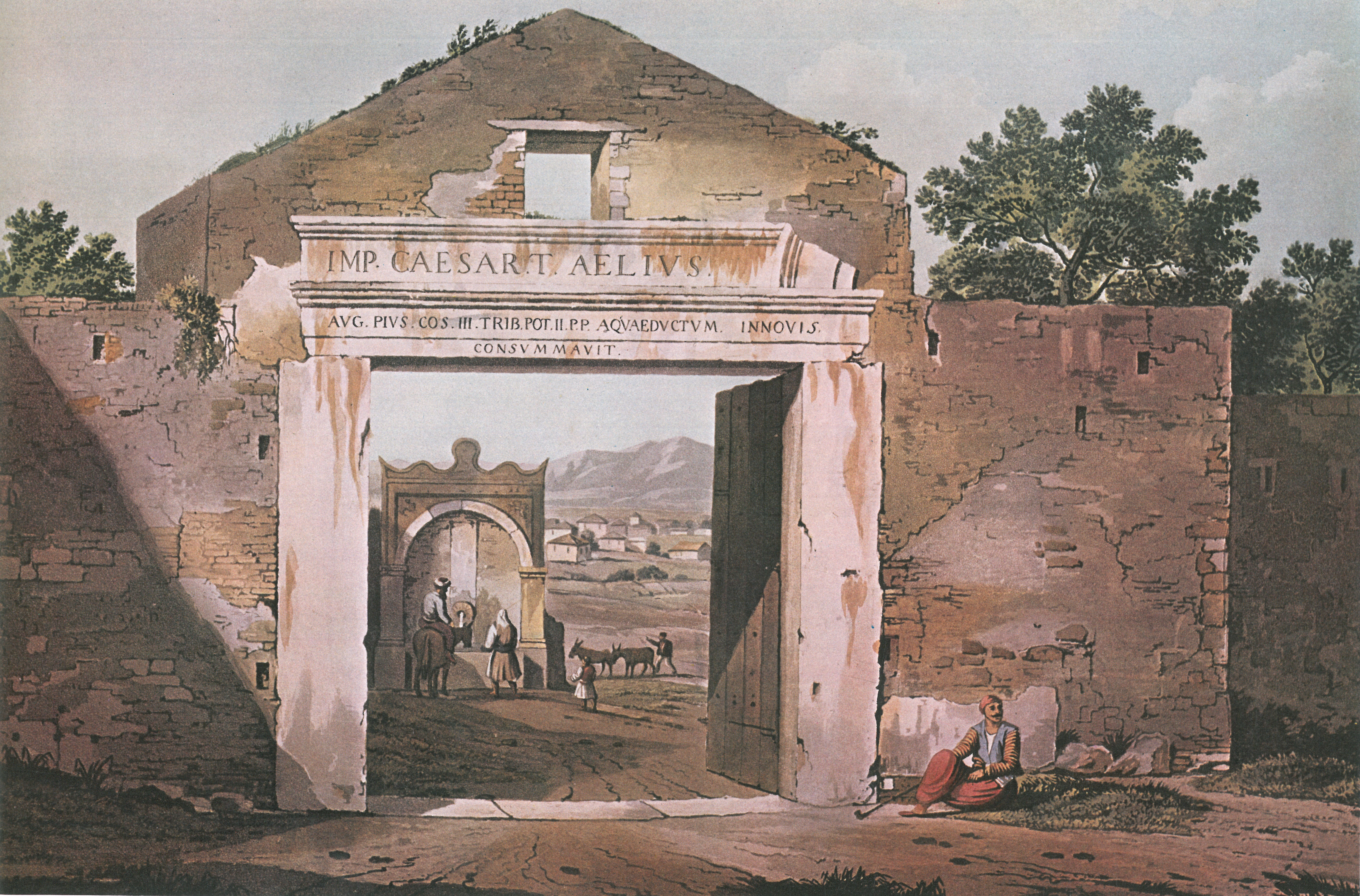 The Boubounistra Gate, one of the gates to the late Ottoman city wall of Athens